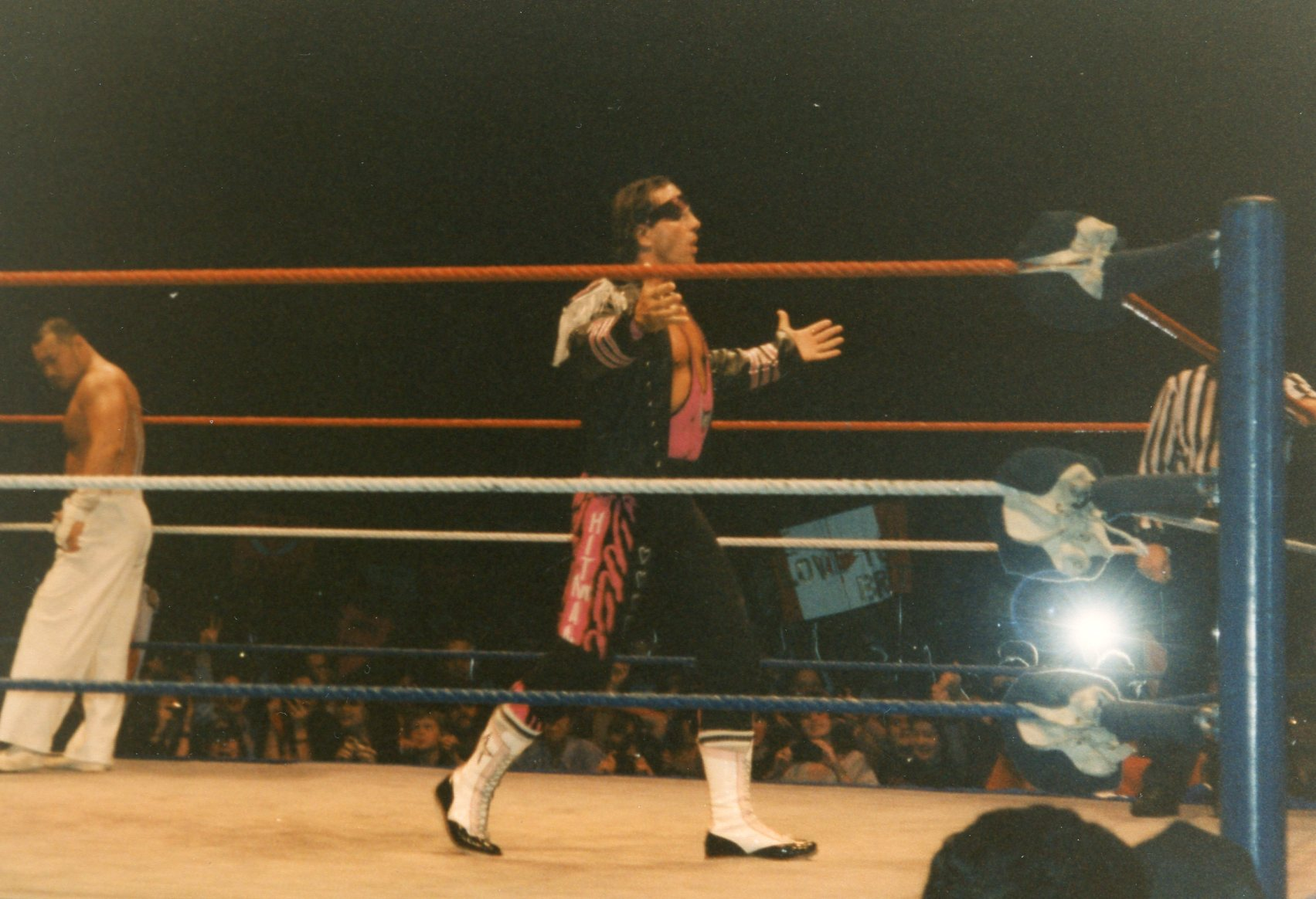 Professional wrestler Bret Hart on tour in Birmingham, England.